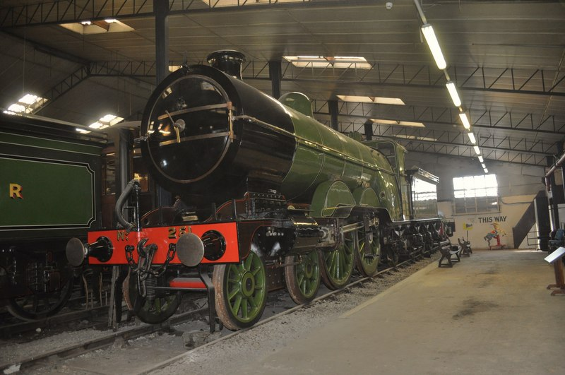 GNR Large Atlantic No. 251, near to Bressingham, Norfolk, Great Britain. GNR Large Atlantic No.251 These large boilered Atlantics were the first engines to be built with a wide firebox as a development from the first Atlantics. No. 251 became symbolic of the Great Northern Railway and this locomotive featured in most of the GNR's advertising and on timetable covers. They proved to be superb locomotives on the east coast express trains and were only surpassed by the larger and more powerful 'Pacific's' such as A3 'Flying Scotsman' and A4 'Mallard'. On loan from National Railway Museum, another boiler from the class is being used to build Brighton H2 Atlantic SR/BR "Beachy Head", which were similar in design.